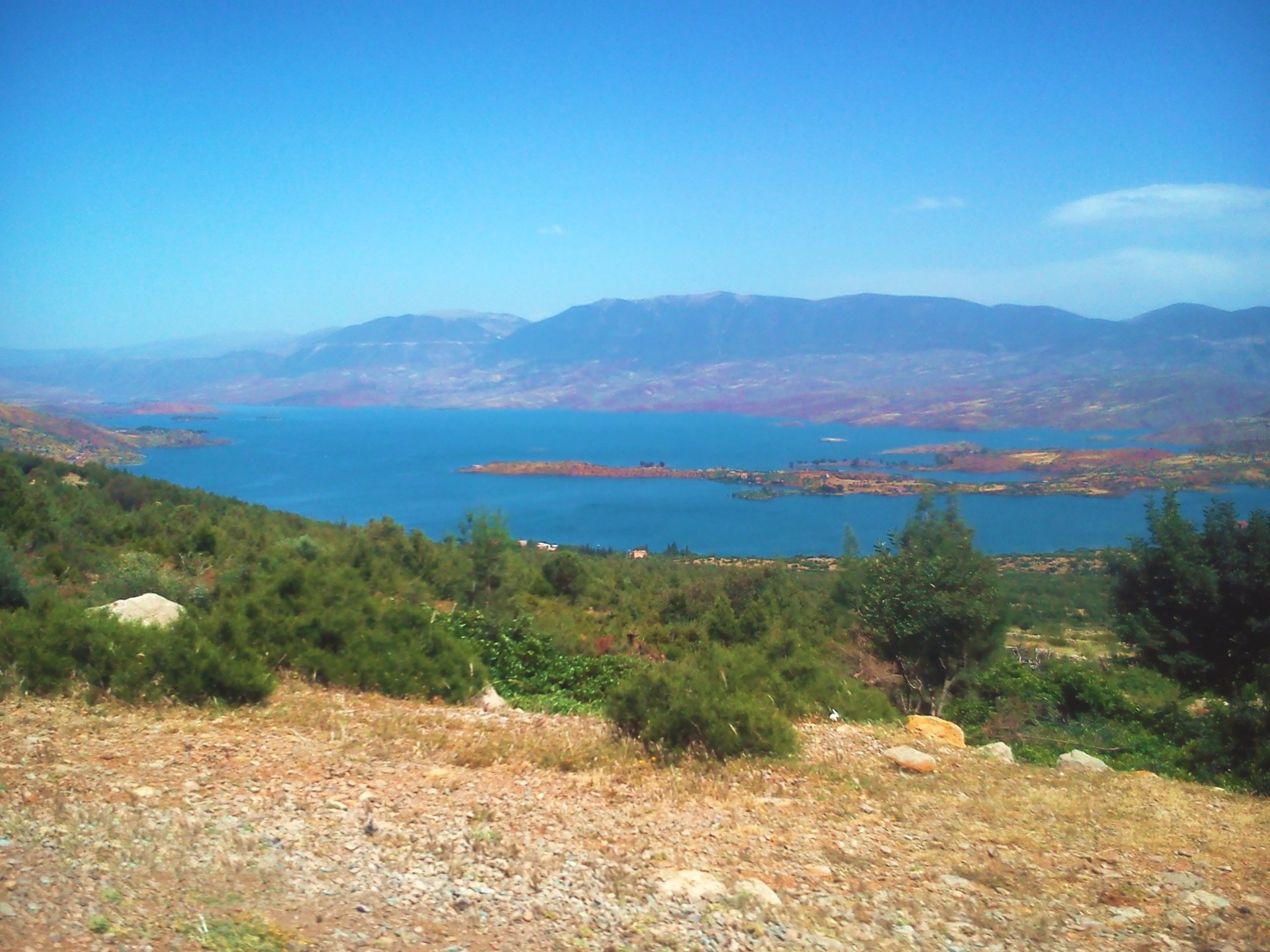 Image combines elements of life:water.sun.soil